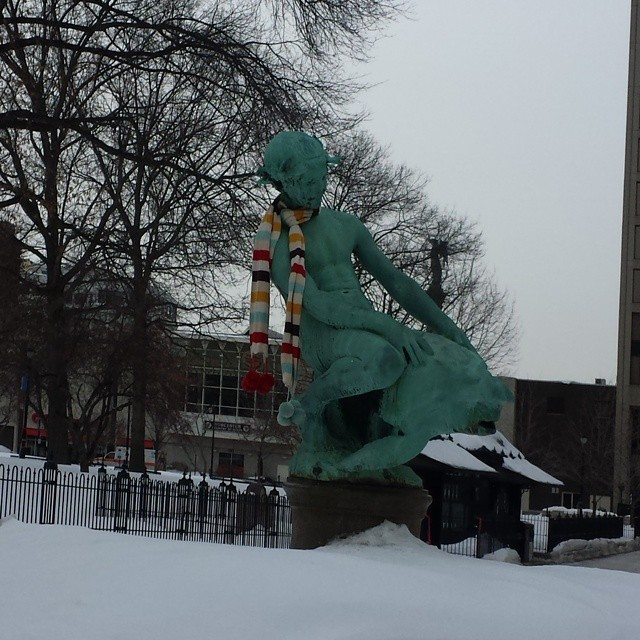 The Burnside Fountain aka Turtleboy with scarf. Worcester City Hall and Common, Worcester, MA.